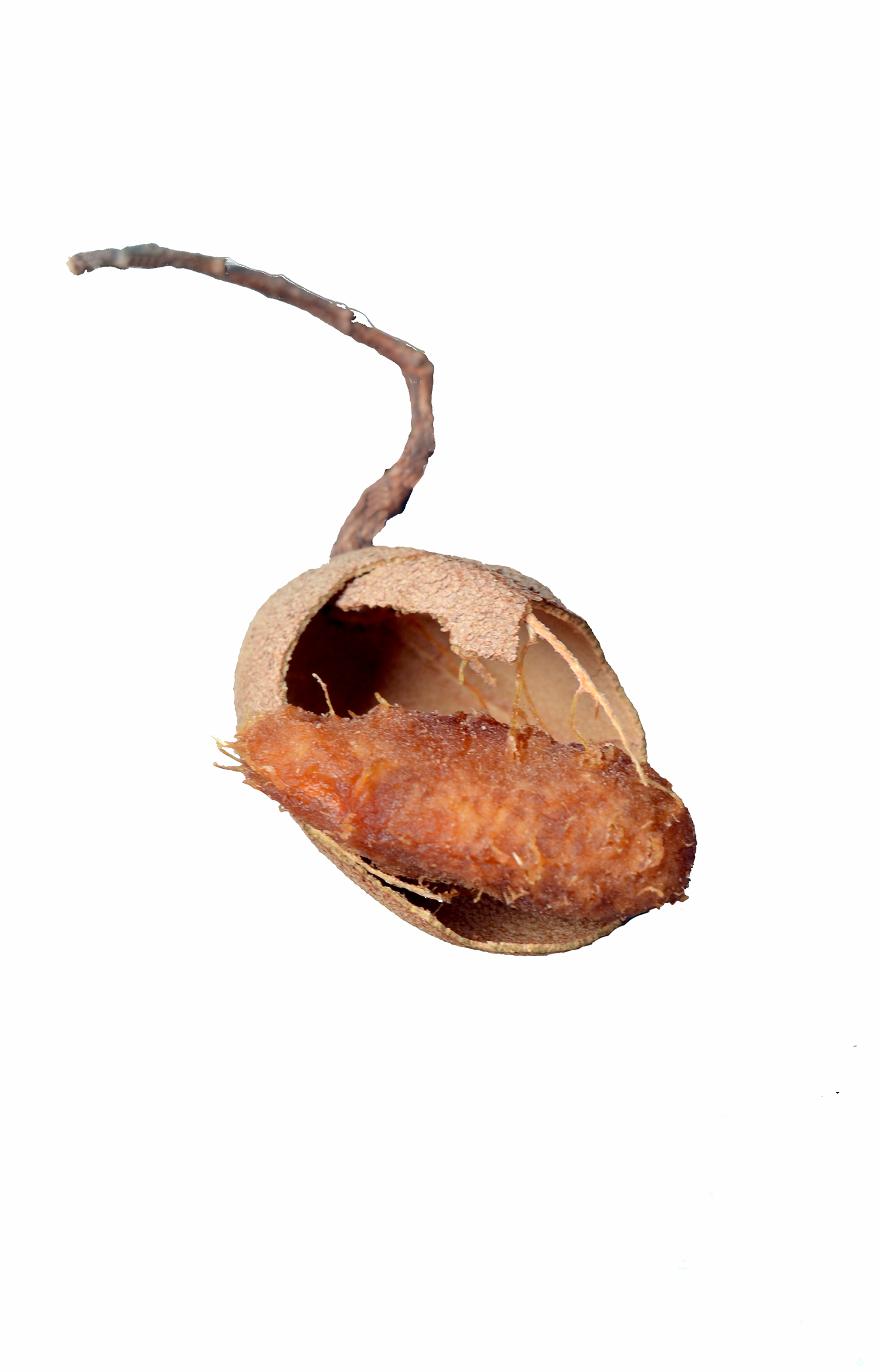 Tamarind fruit